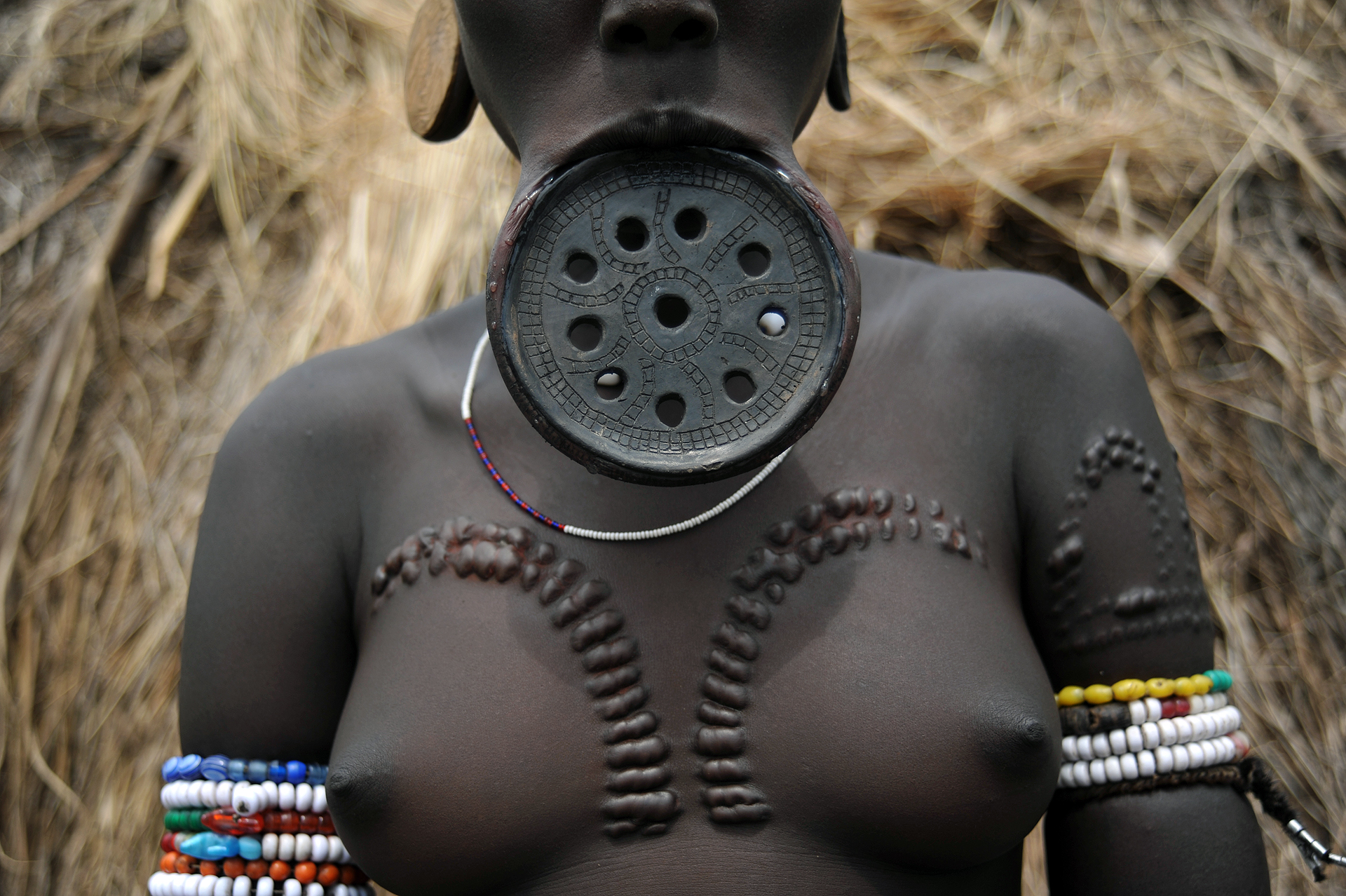 Ethnic Mursi women with her Lip plate at Omo Valley, Ethiopia.